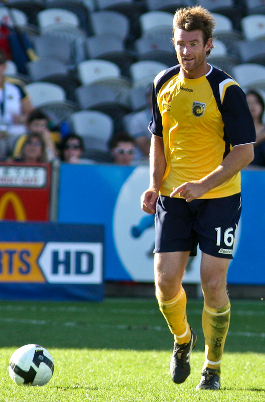 Paul O'Grady playing for the Central Coast Mariners youth team against Sydney FC youth.